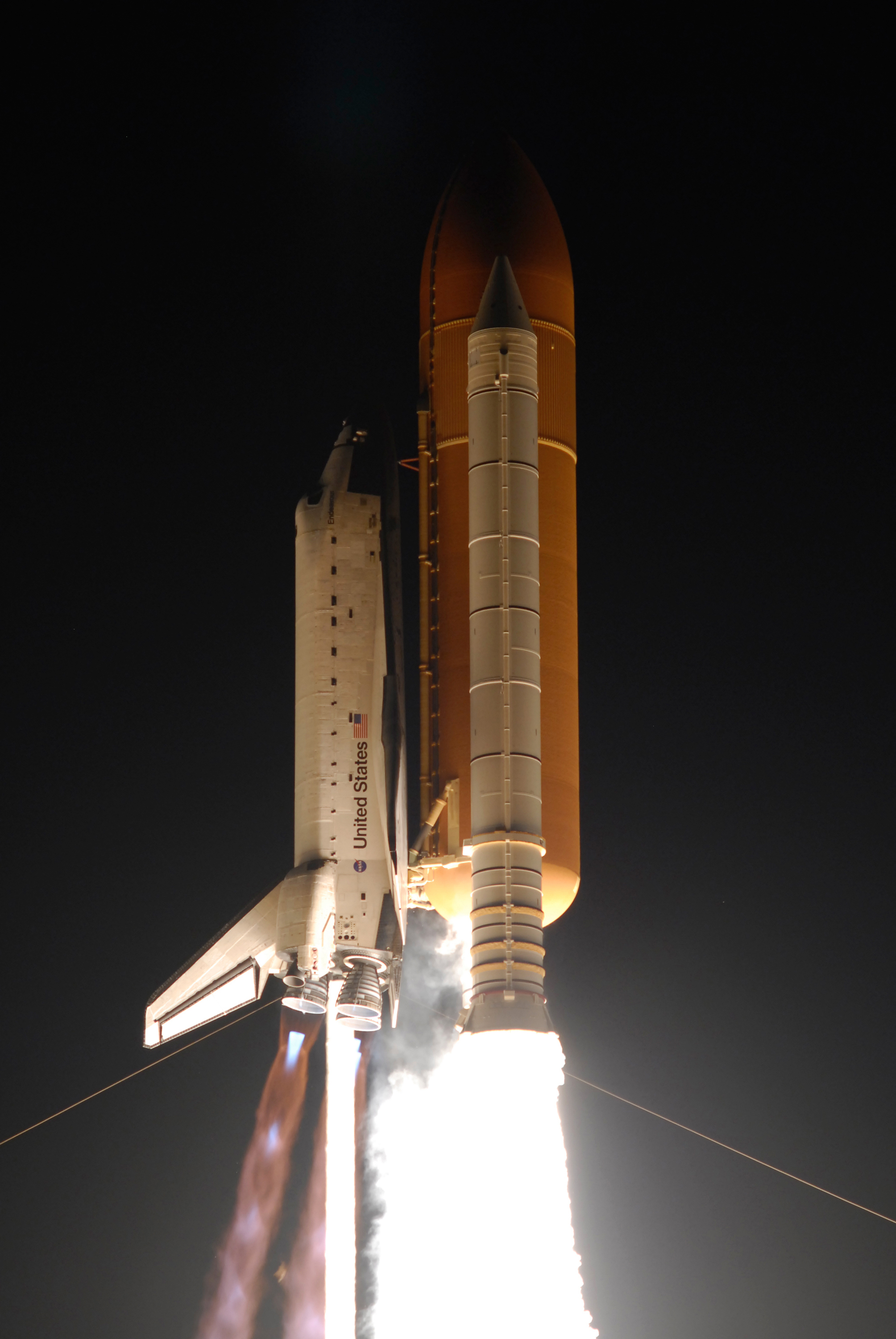 Racing into the night sky atop columns of fire, space shuttle Endeavour on mission STS-123 shows blue cones of light beneath its engines. The shock or mach diamonds are a formation of shock waves in the exhaust plume of an aerospace propulsion system. Liftoff was on time at 2:28 a.m. EDT. The crew will make a record-breaking 16-day mission to the International Space Station and deliver the first section of the Japan Aerospace Exploration Agency's Kibo laboratory and the Canadian Space Agency's two-armed robotic system, Dextre.